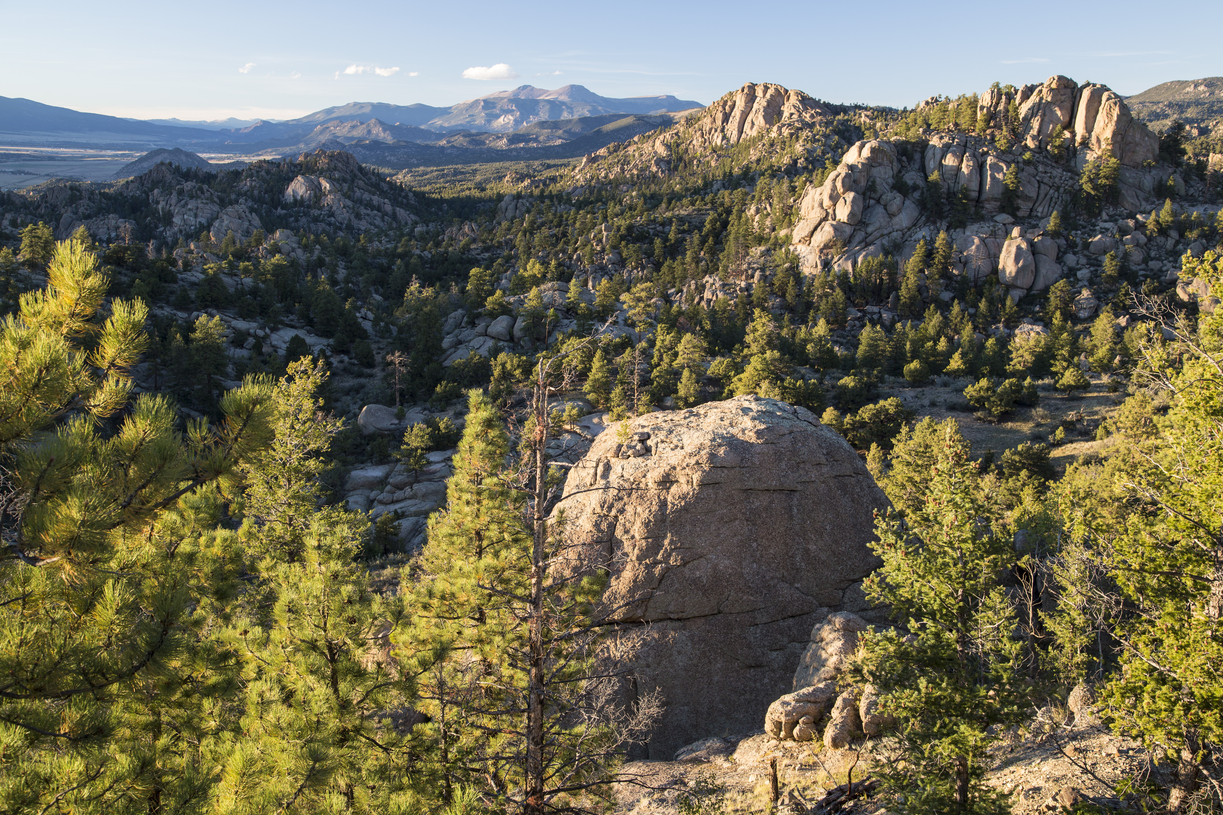 The Browns Canyon National Monument in Colorado will protect a stunning section of Colorado’s upper Arkansas River Valley. Located in Chaffee County near the town of Salida, Colorado, the 21,586-acre monument features rugged granite cliffs, colorful rock outcroppings, and mountain vistas that are home to a diversity of plants and wildlife, including bighorn sheep and golden eagles. Members of Congress, local elected officials, conservation advocates, and community members have worked for more than a decade to protect the area, which hosts world-class recreational opportunities that attract visitors from around the globe for hiking, whitewater rafting, hunting and fishing. In addition to supporting this vibrant outdoor recreation economy, the designation will protect the critical watershed and honor existing water rights and uses, such as grazing and hunting. The monument will be cooperatively managed by the Department of the Interior’s Bureau of Land Management and USDA’s National Forest Service. Learn more: Photos by Bob Wick, BLM